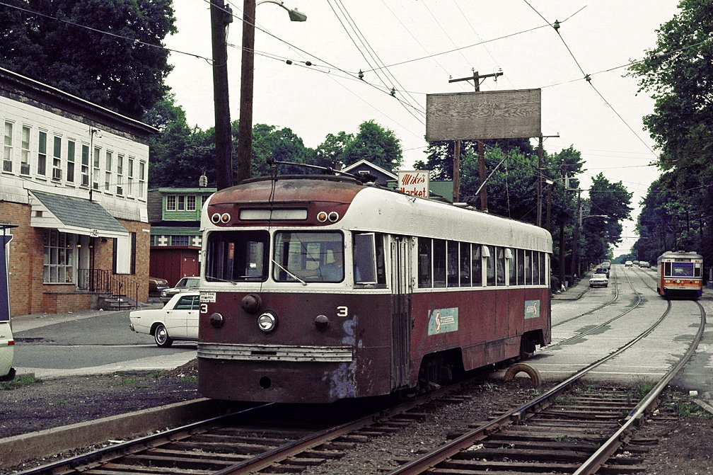 Former Red Arrow Brill Liner #3 is arriving in Upper Darby on Garrett Rd. In the distance, outbound Brill "Master Unit" #83 is heading out. May 1976